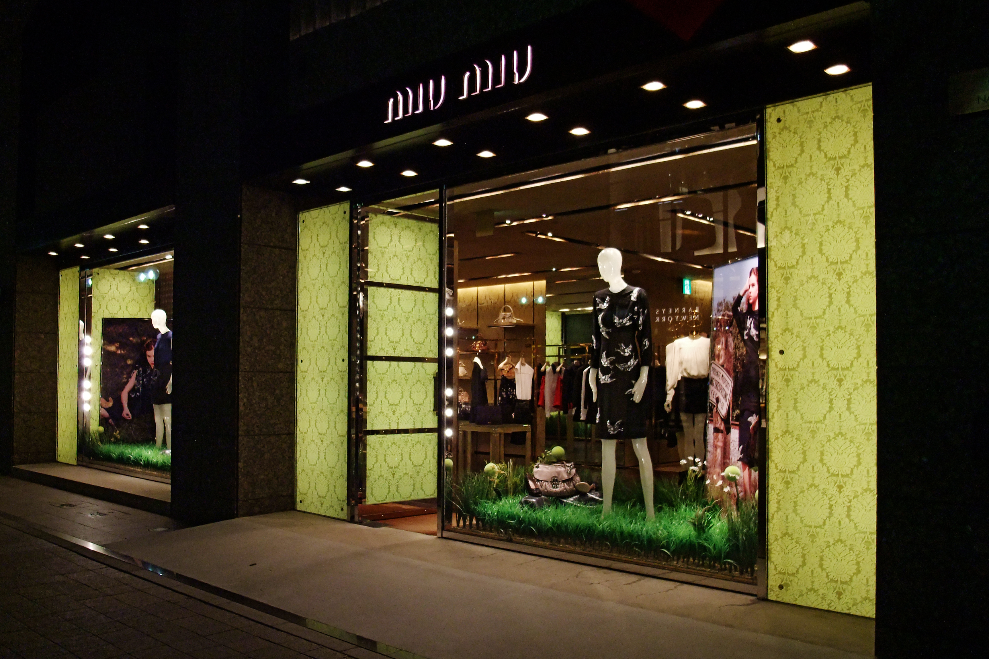 Miu Miu in Kyukyoryuchi (Former Foreign Settlement of Kobe), Kobe, Hyogo prefecture, Japan